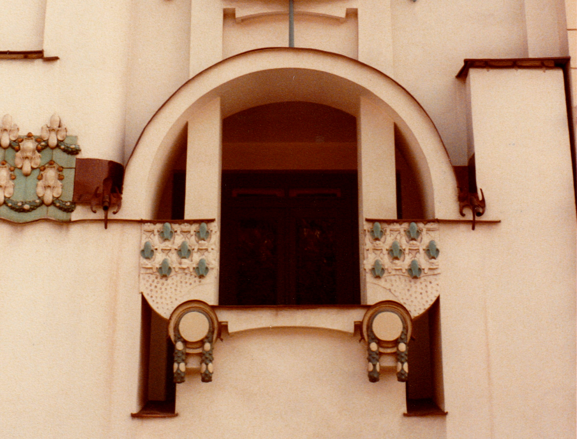 Villa Vojcsik (Vienna, Austria) - Otto Schönthal - 1901